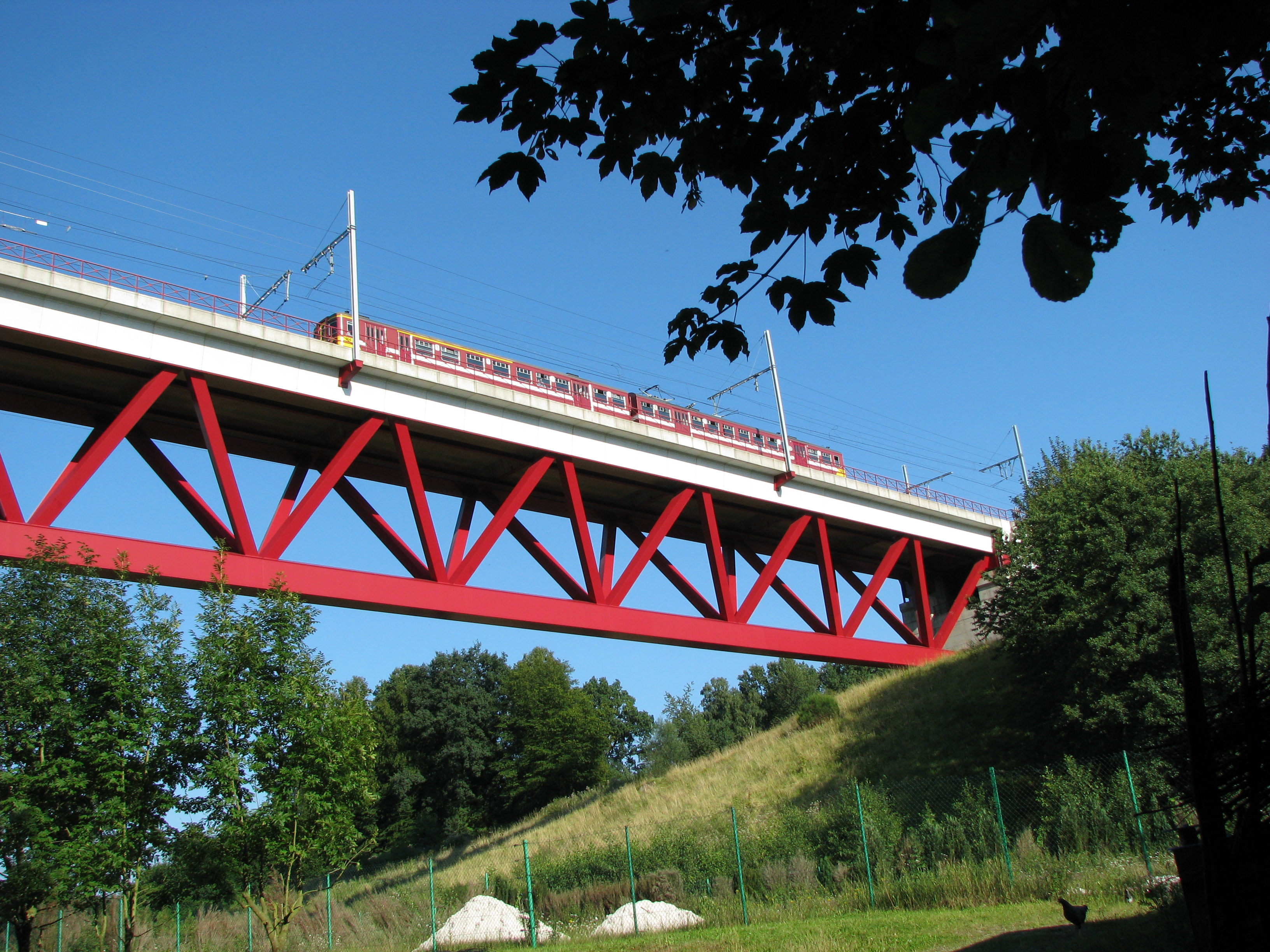 Hammer Bridge at Hergenrath with euregioAIXpress.